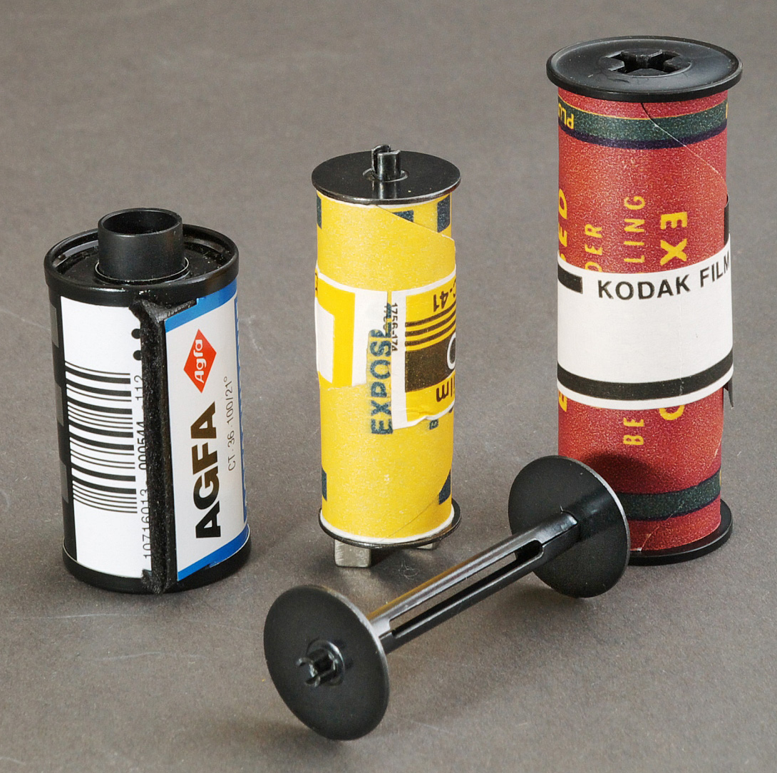 127 roll film with empty reel (centre), miniature cartridge 135 (left) and 120 (right) roll film for comparison